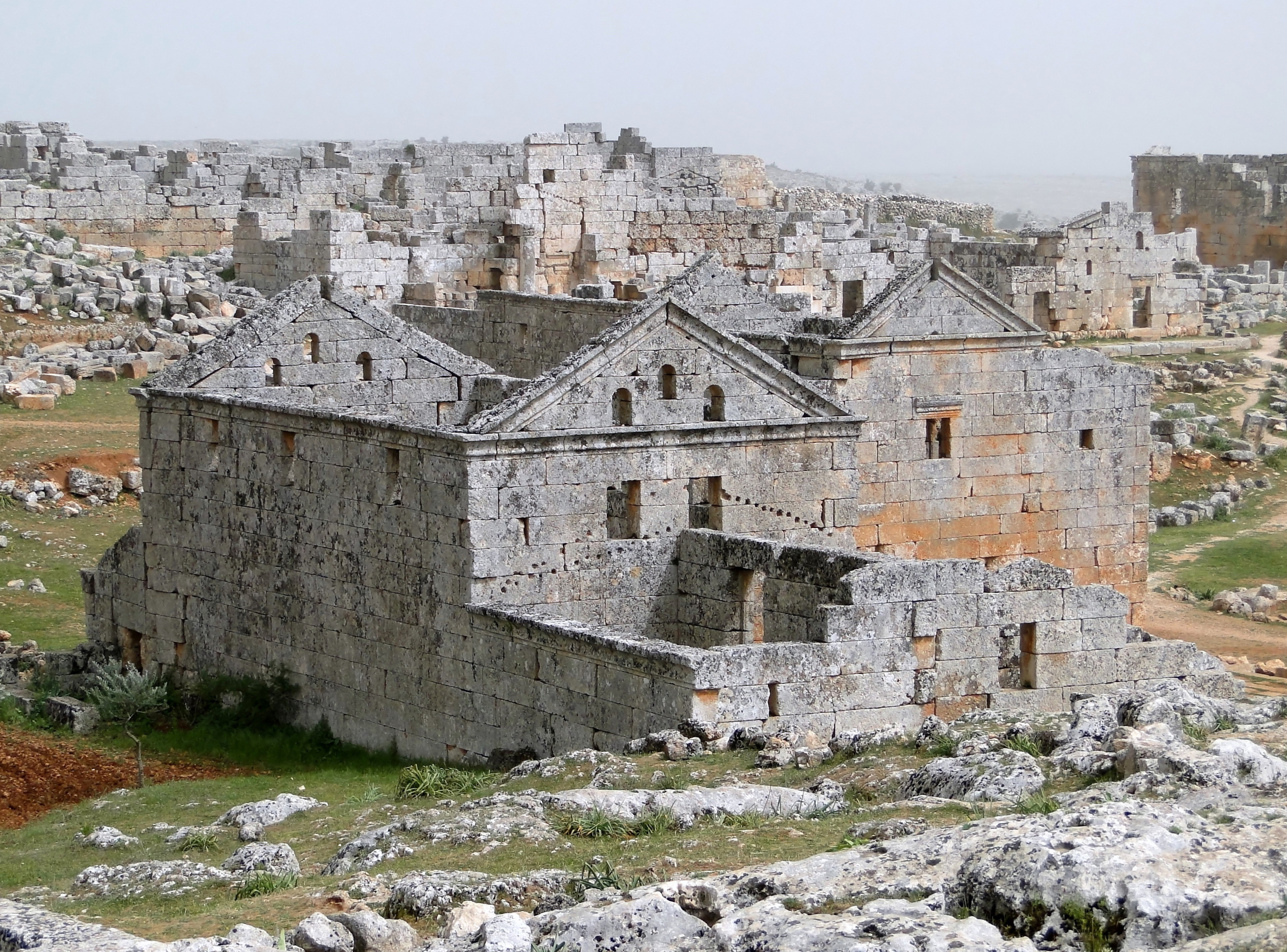 Dead city of Serjilla, Syria